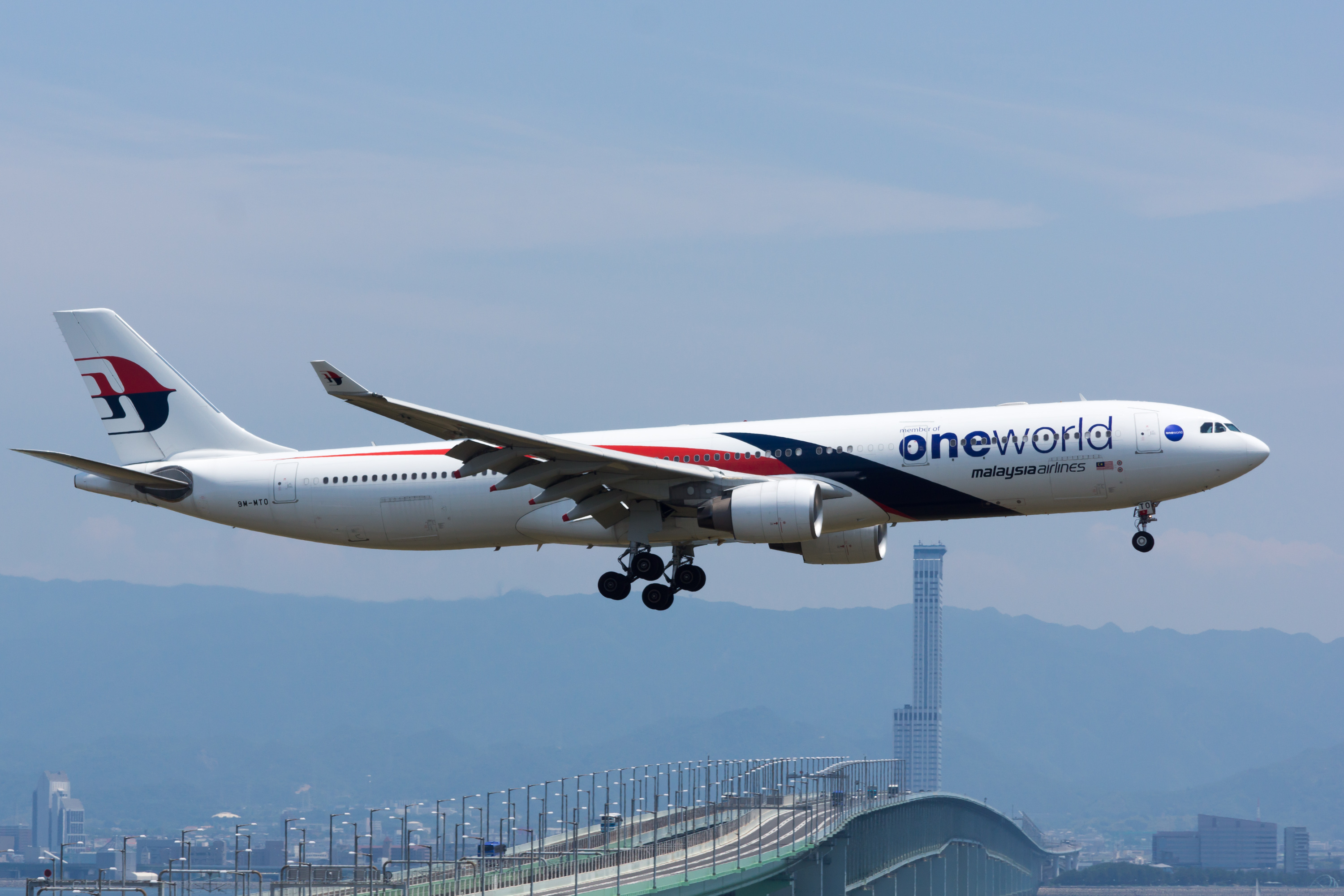 Malaysia Airlines / Penerbangan Malaysia / マレーシア航空 A330-323X 9M-MTO Special Marking "One World livery" MH52, Arrived from Kuala Lumpur Osaka Kansai Int'l Airport